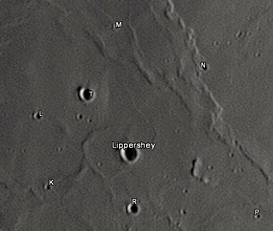 Lippershey lunar crater as seen from Earth with satellite craters labeled